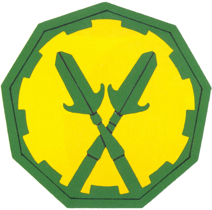 290th Military Police Brigade shoulder sleeve insignia. Representation of United States Army insignia, ineligible for copyright